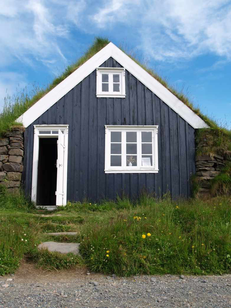 Sel Museum in Skaftafell National Park, South East Iceland